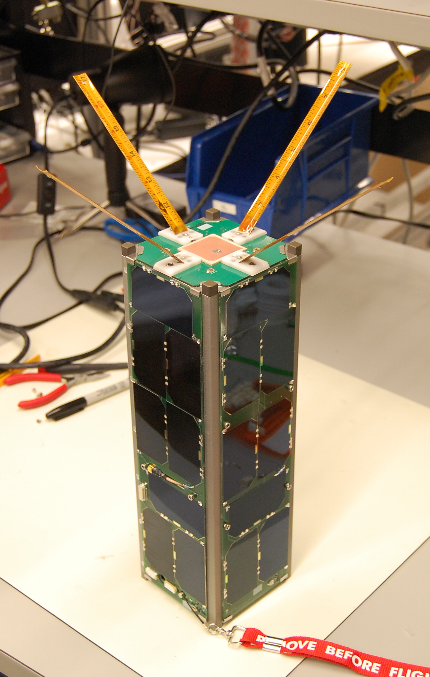 Radio Aurora Explorer cubesat